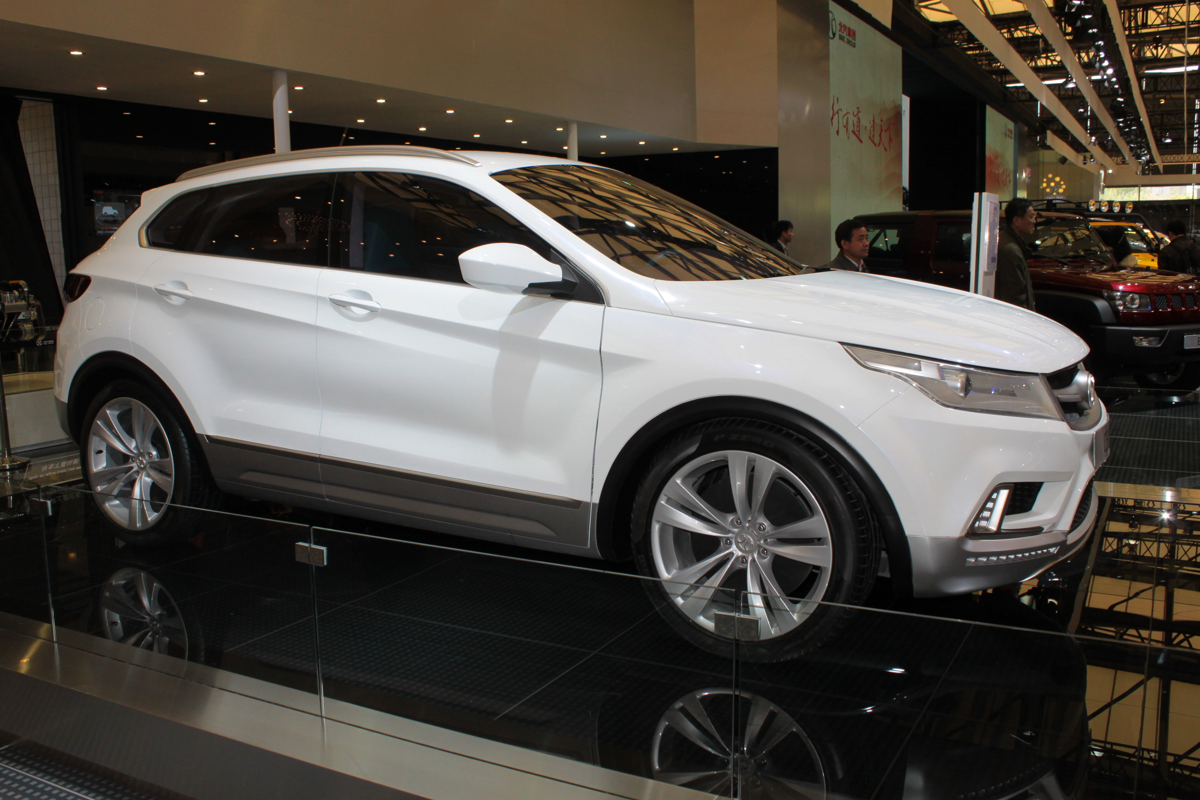 BAIC C51X concept SUV at Auto Shanghai 2013